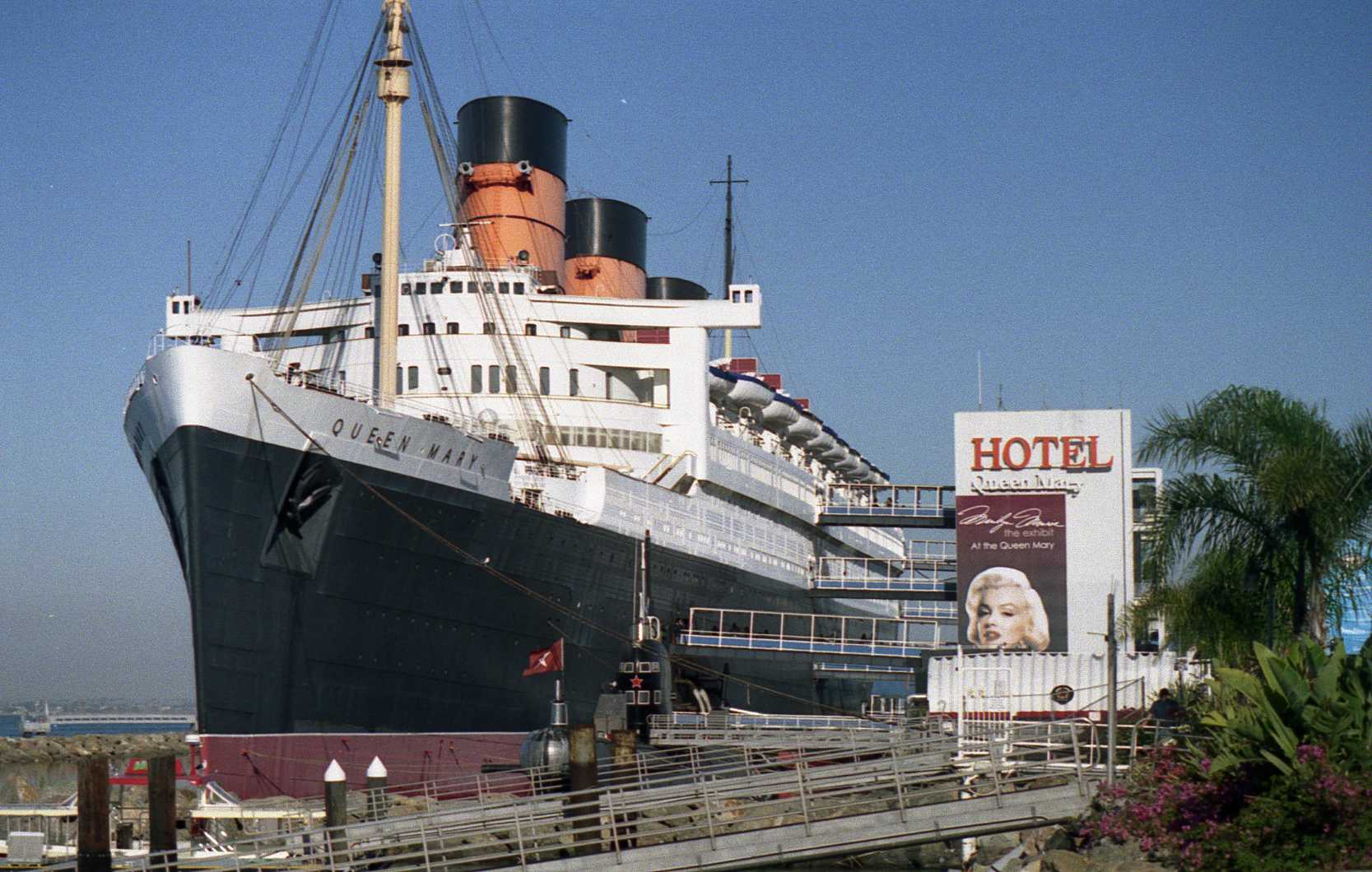 RMS Queen Mary Hotel in Long Beach, California